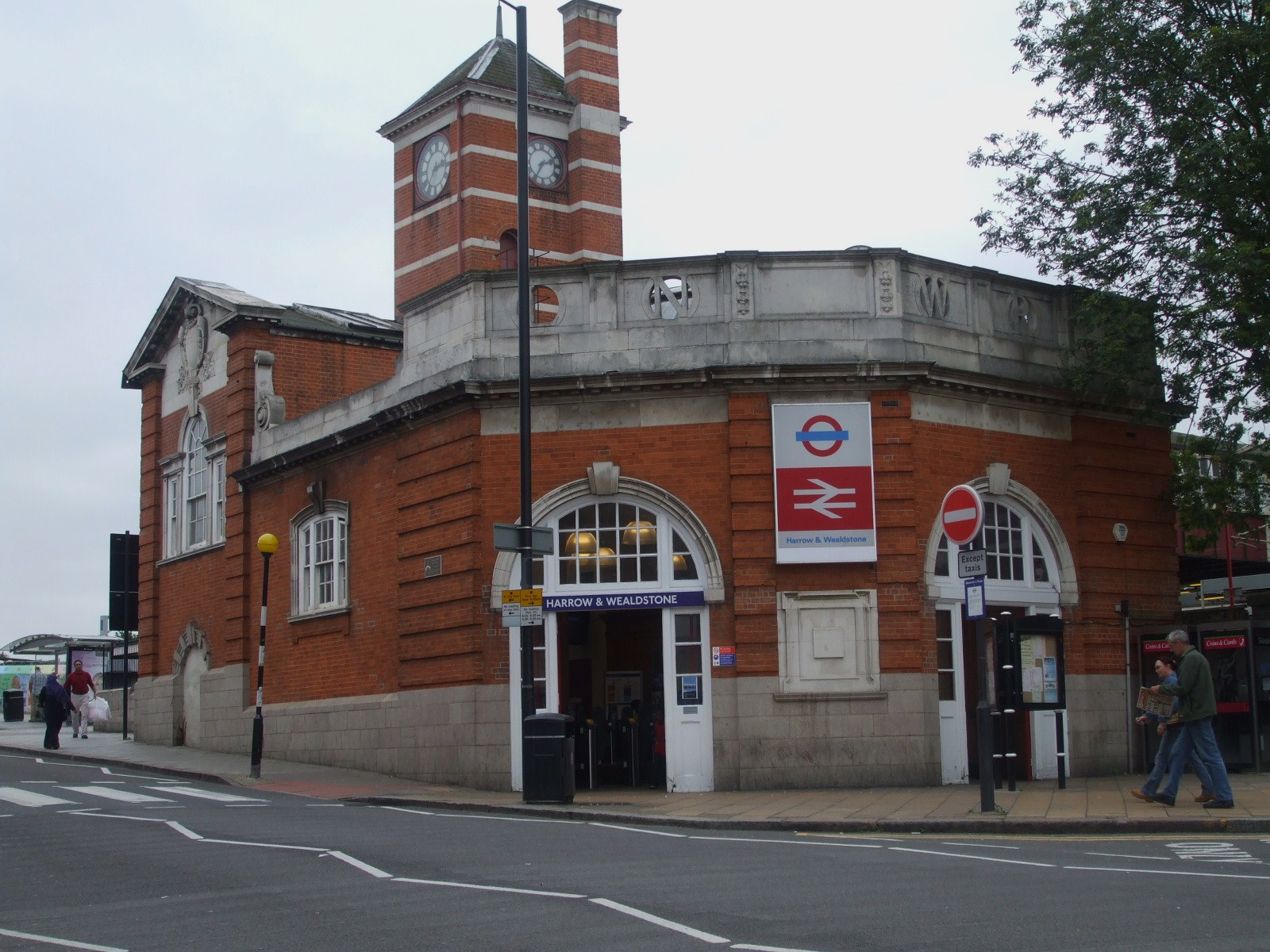 Harrow & Wealdstone station eastern entrance